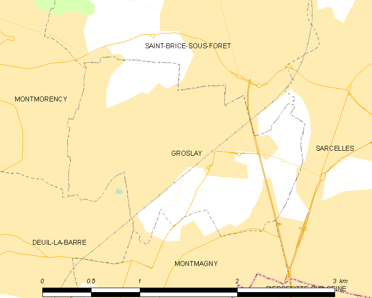 Map of French municipality Groslay